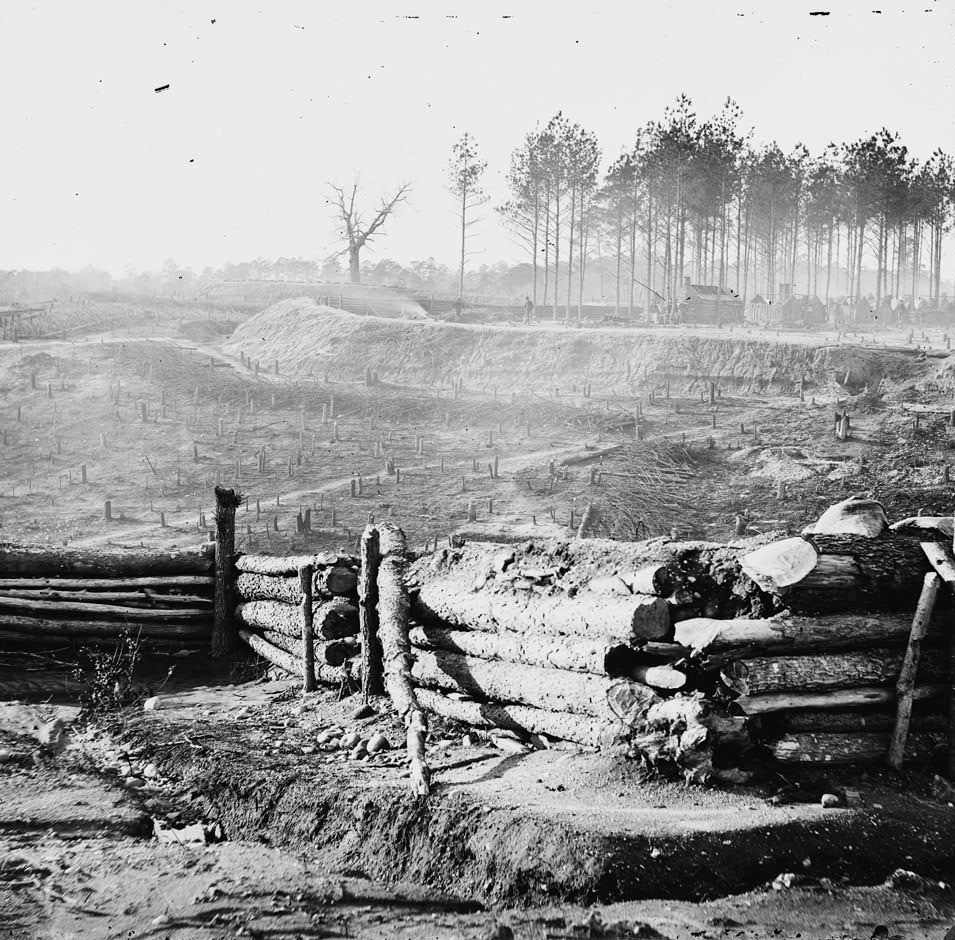 Bermuda Hundred, Va. Federal earthworks on left of the line, near Point of Rocks. Photograph from the main eastern theater of war, the Army of the James, June 1864-April 1865.